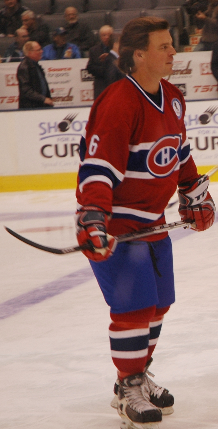 Russ Courtnall played with Montreal Canadiens Alumni at the Legends Clasic in Toronto